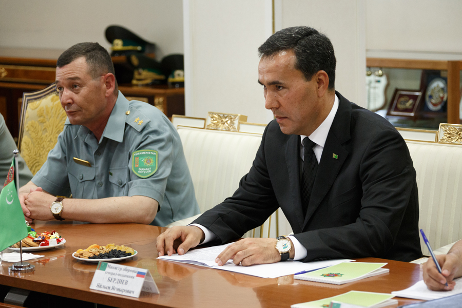 Turkmenistan Defense Minister Colonel General Yaylym Berdiev.